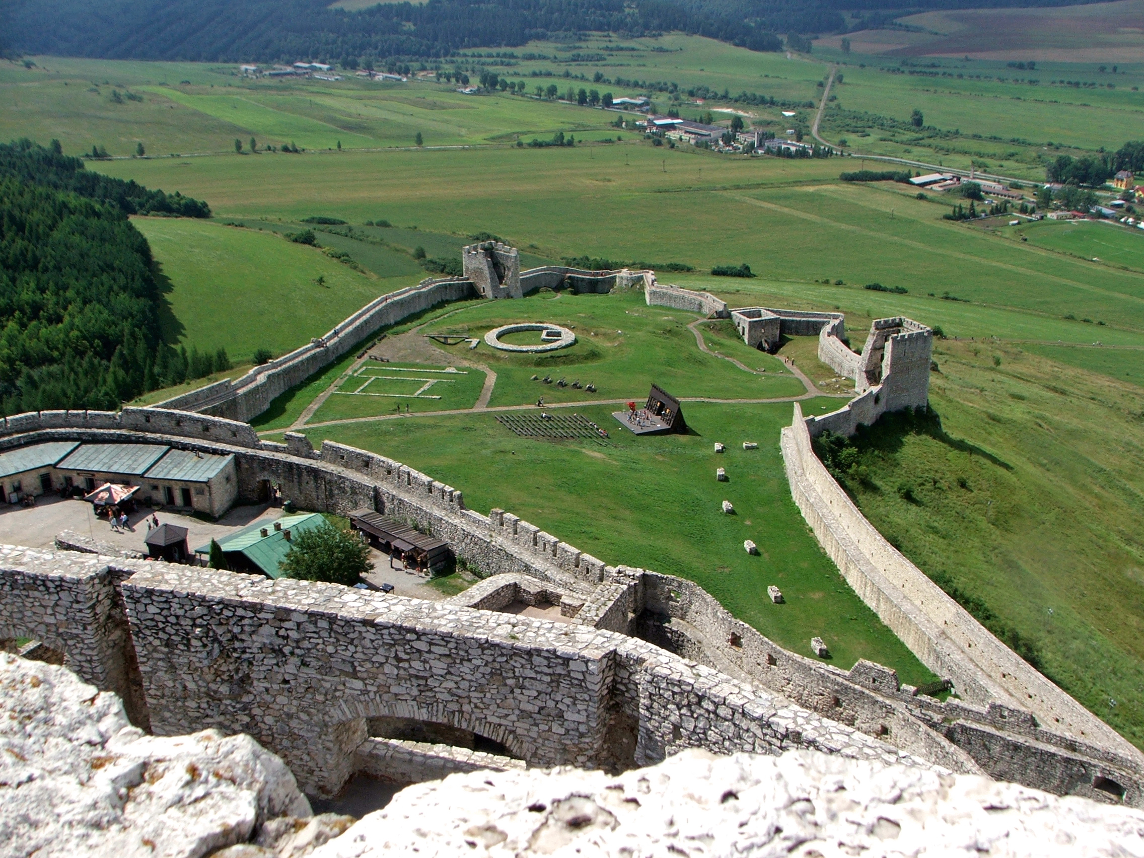 Spis Castle courtyard